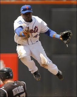 A more updated photo of berroa because now he is on the mets not the yankees.